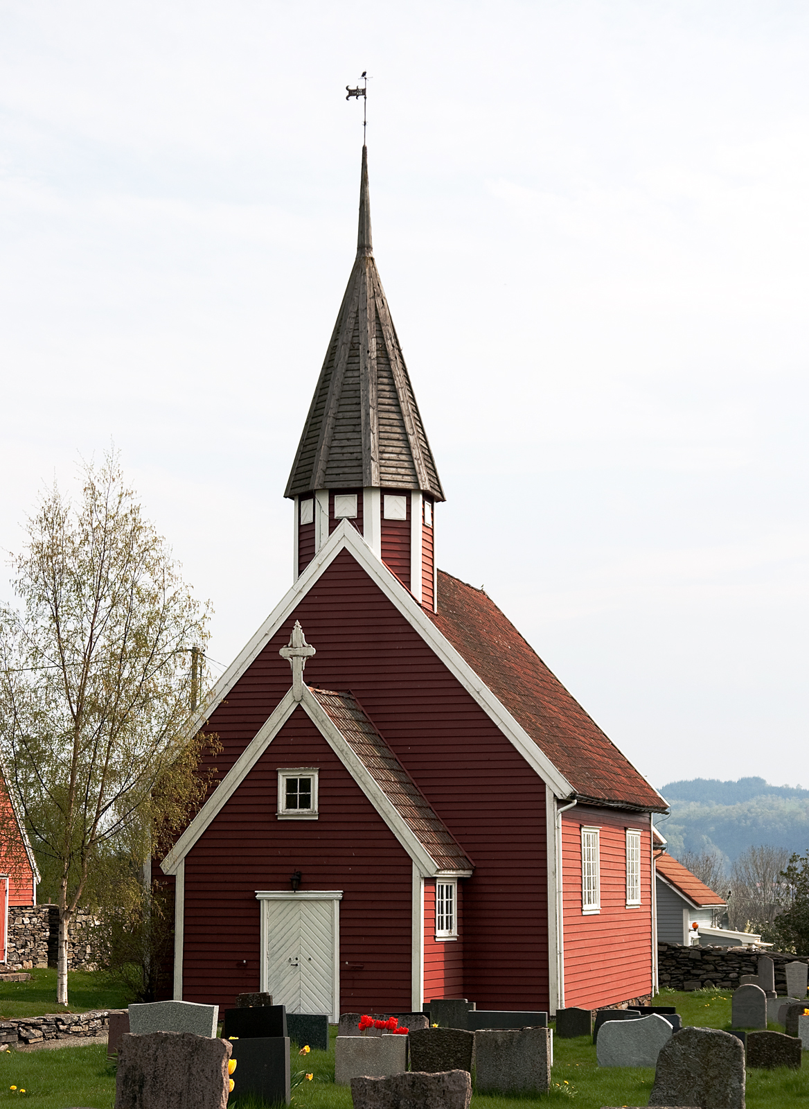 Picture of Sjernarøy kyrkje.